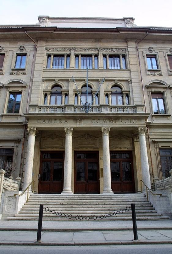 The Chamber of Commerce of Cuneo